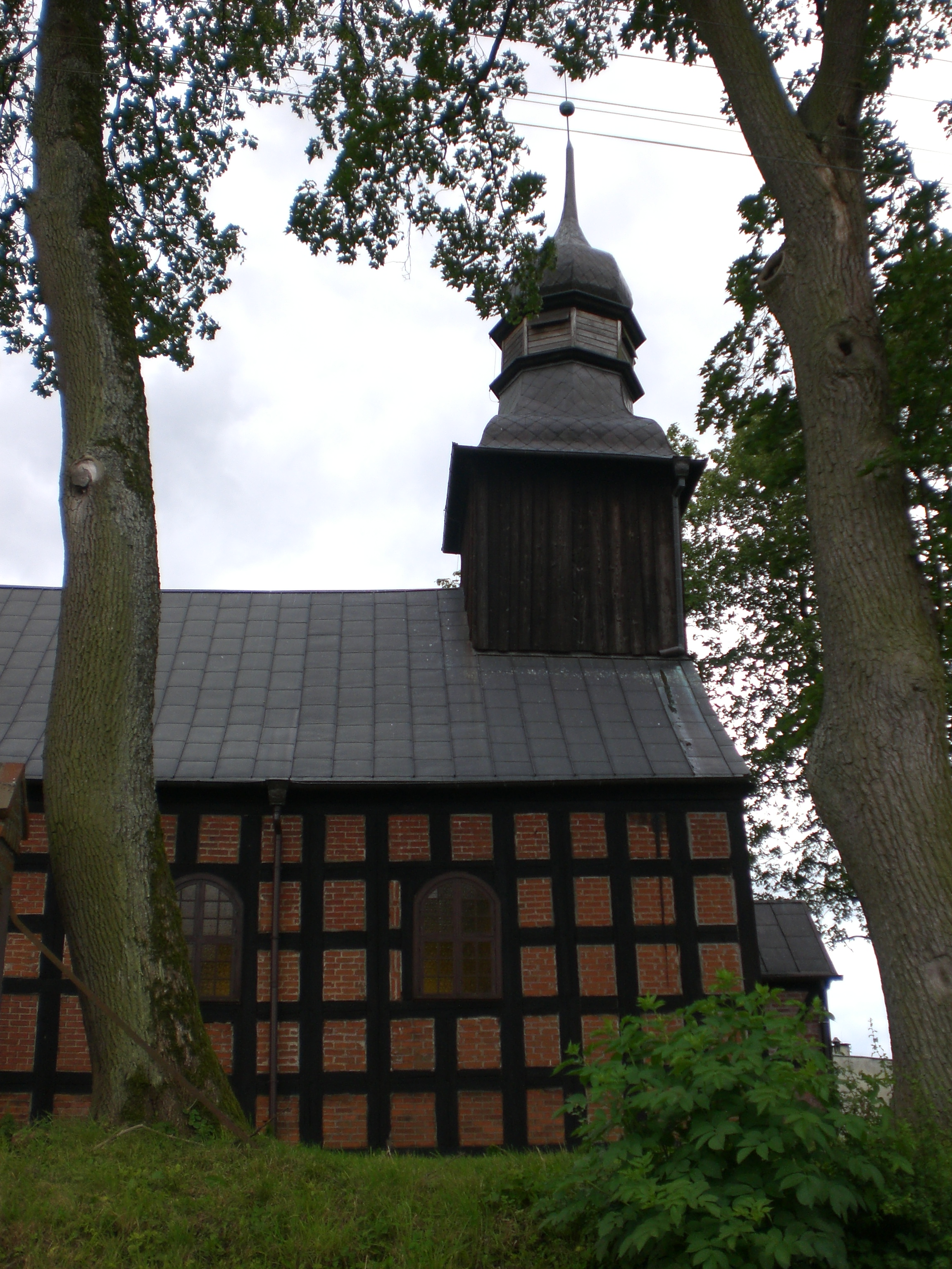 Saint Anne church in Przechlewo, Poland